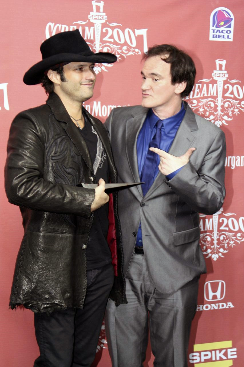 American film directors Robert Rodriguez and Quentin Tarantino. Taken at the 2007 Scream Awards